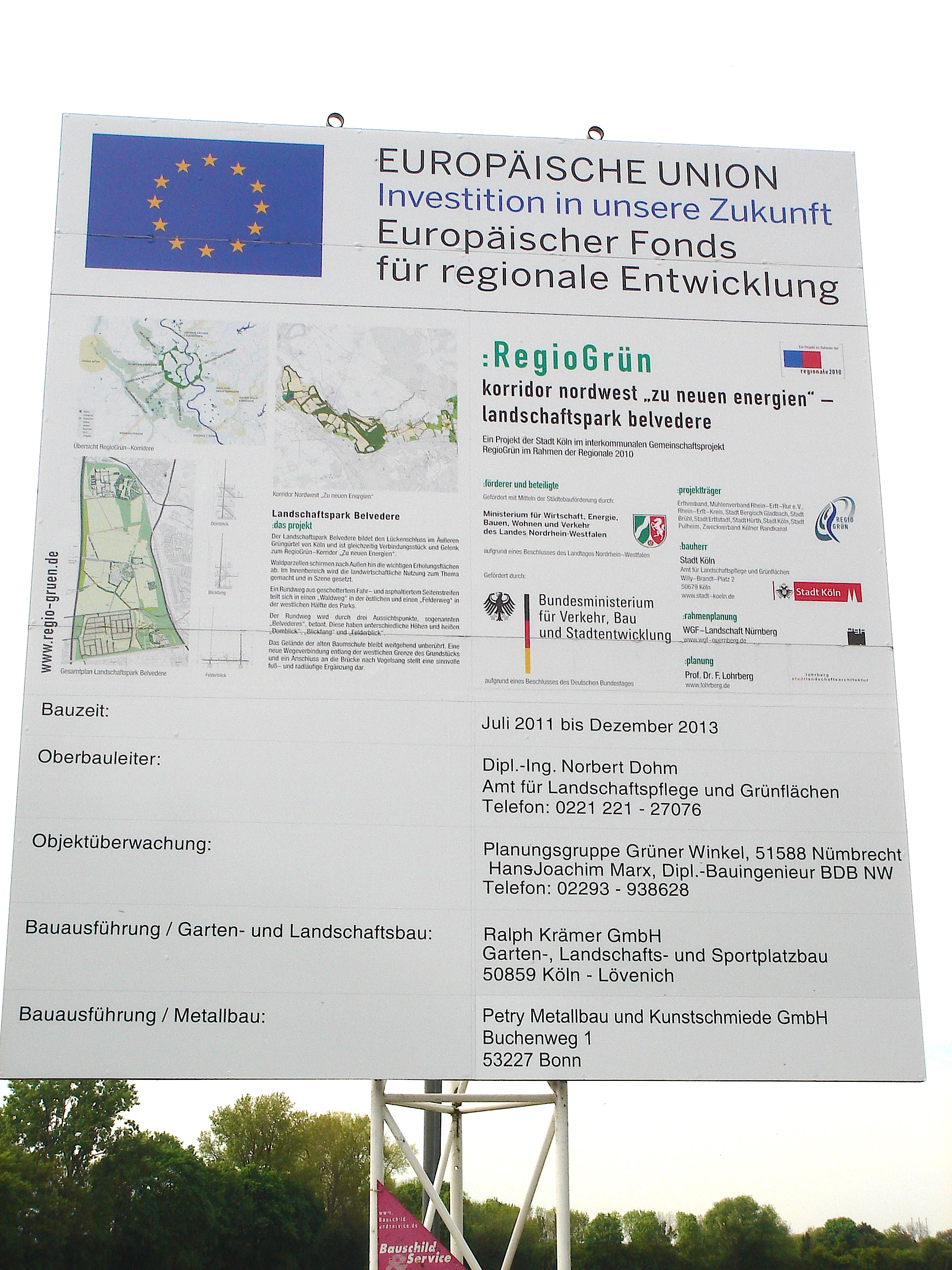 Landschaftspark Belvedere - construction sign